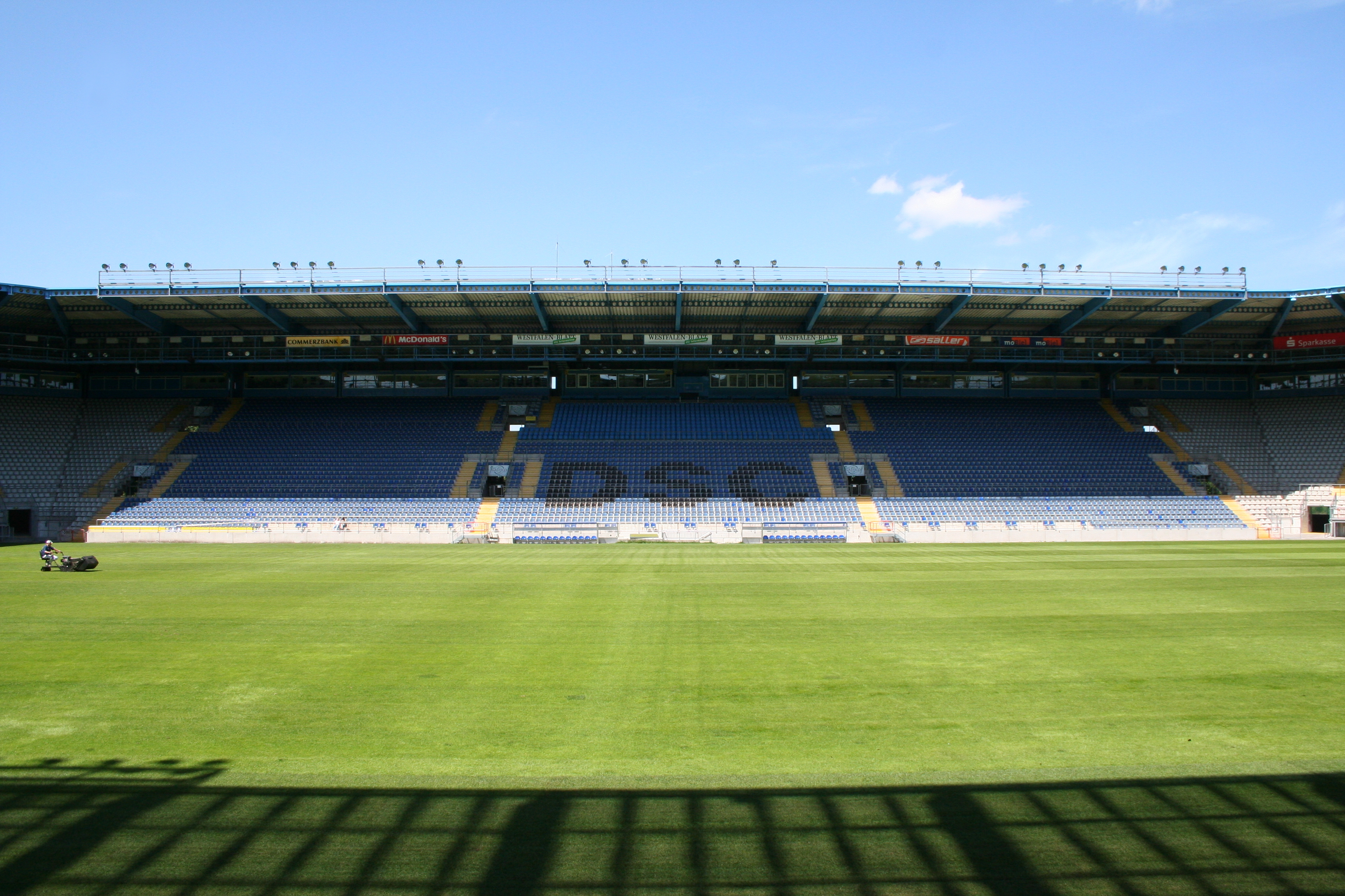 Weststand of the Bielefelder Alm